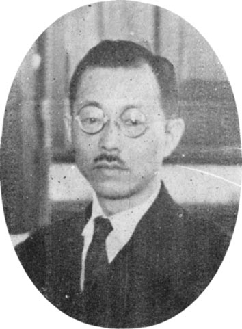 Mr. Minoru Harada.